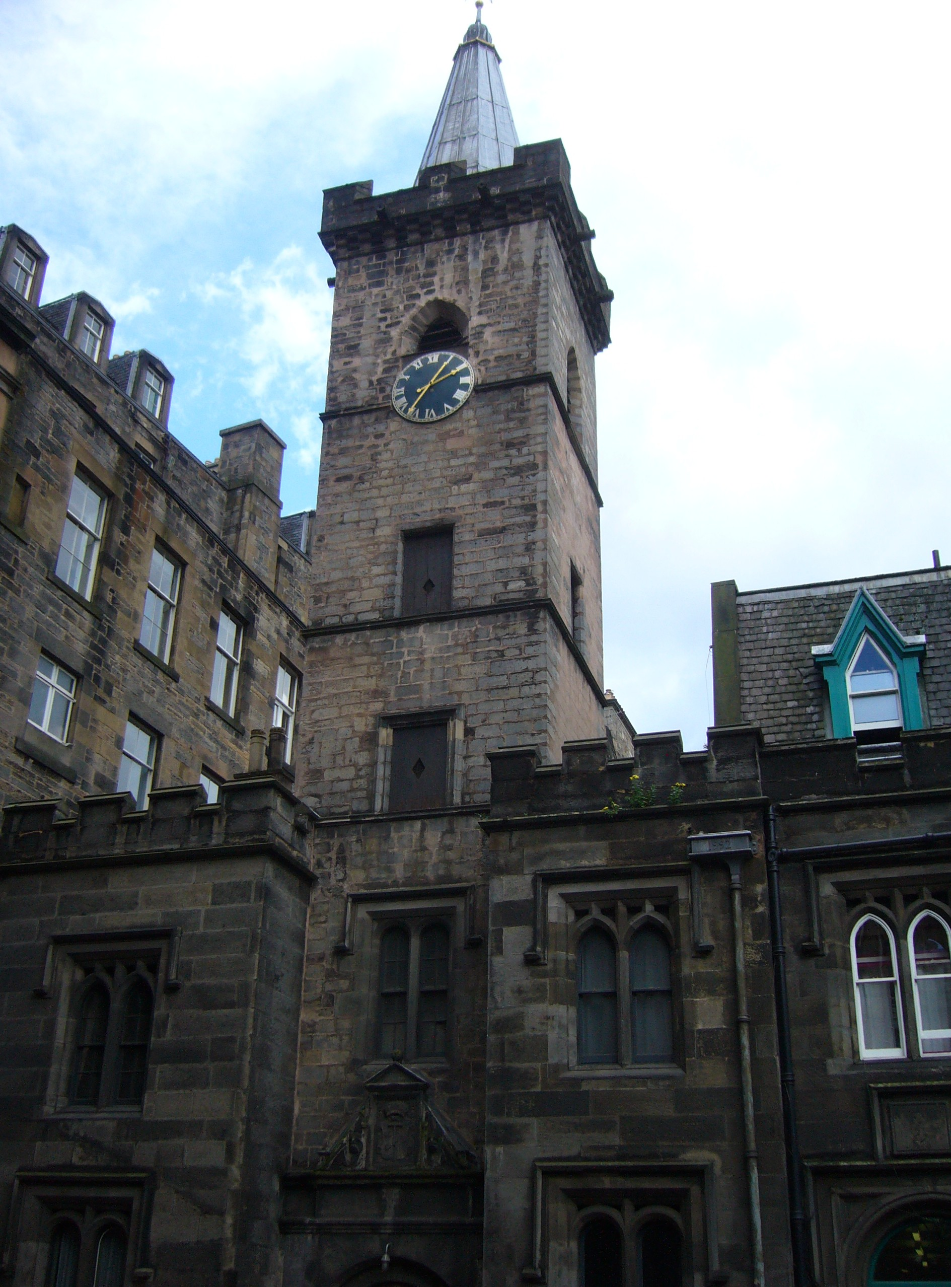 Pre-Reformation Chapel, founded by Michael Macquhen and his wife Janet Rhynd and built in 1540-44. After the death of Janet, who was buried in the Chapel, it was managed by the guild of Hammermen. It is one of the few religious foundations where the stained glass escaped the fury of the mob during the Reformation. One window shows the arms of the Catholic Regent, Mary of Guise. The steeple was added in c.1620 and the enclosing tower in 1625. The Chapel is now owned by the Scottish Reformation Society and has been declared one of the three most important surviving buildings in Edinburgh by the Royal Commission on Ancient and Historical Monuments.